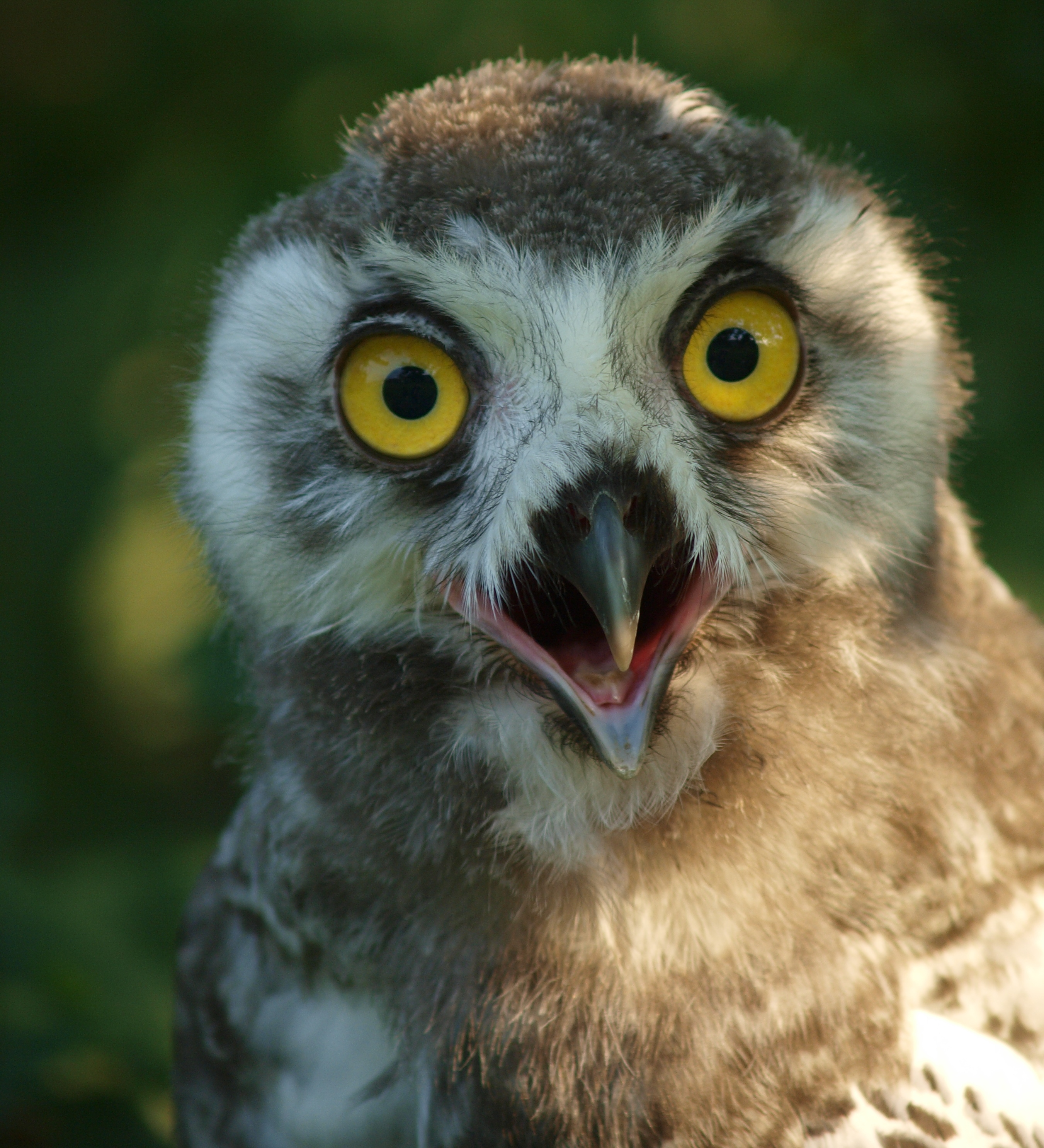 Snowy Owl (Bubo scandiacus)